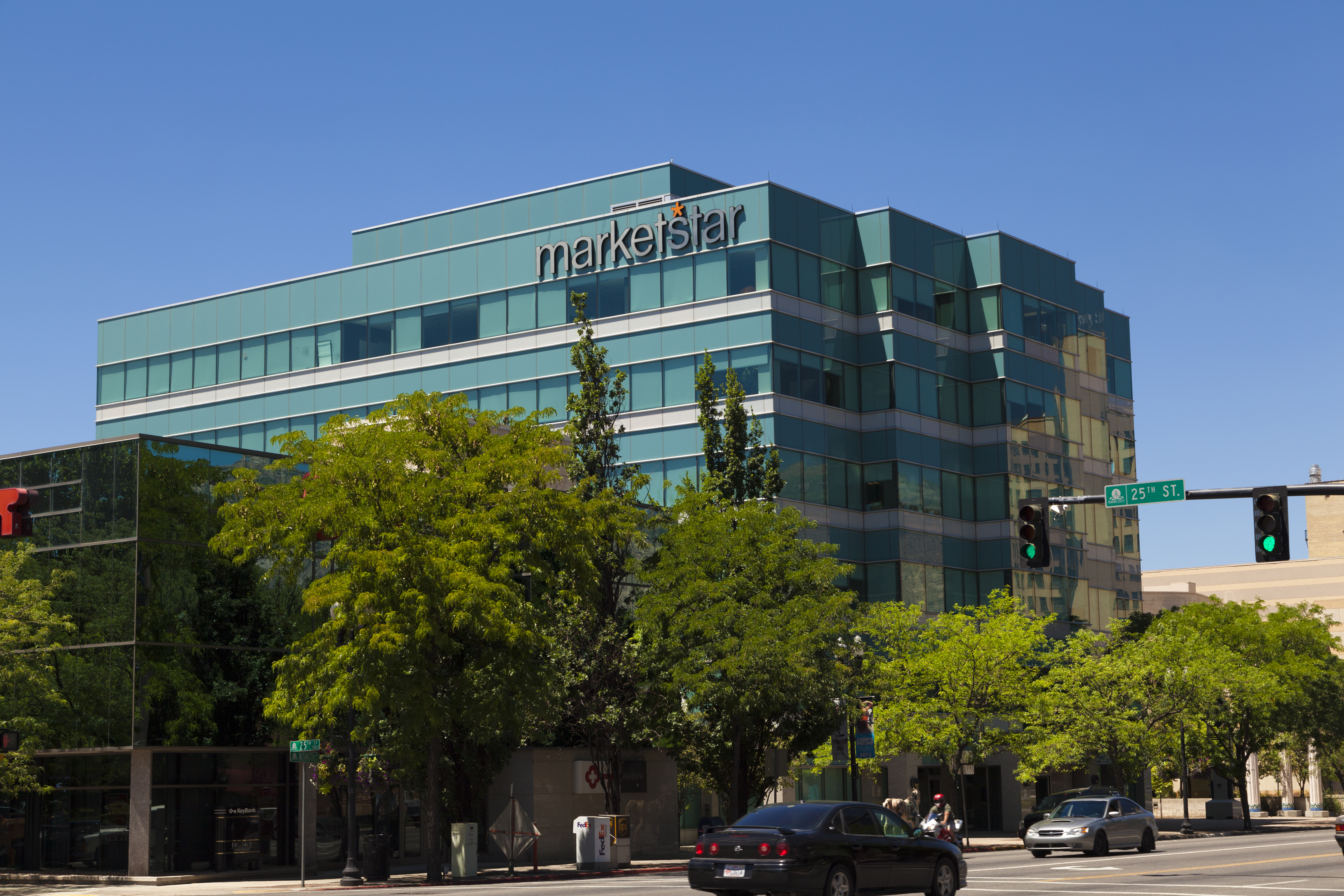 MarketStar headquarters in Ogden, Utah, USA. 2475 Washington Blvd. Ogden, Utah 84401